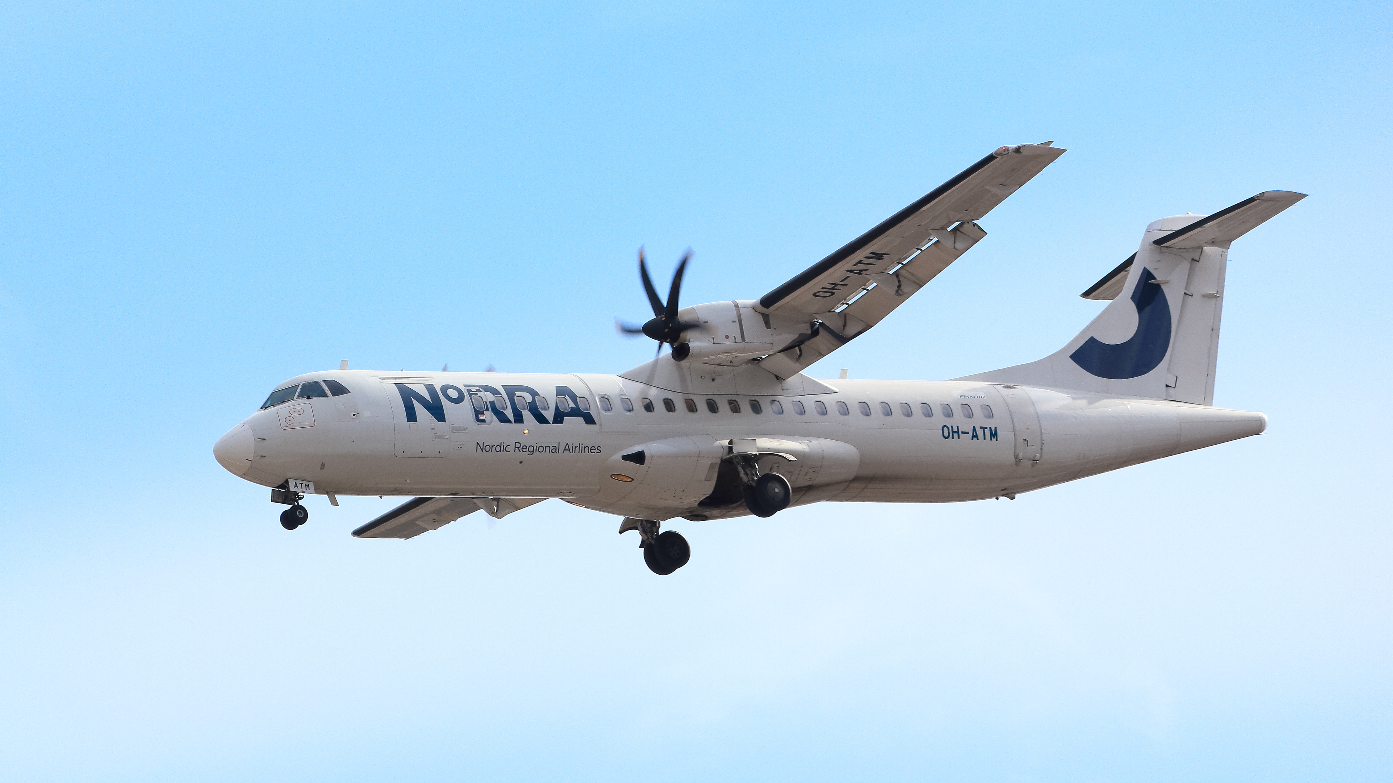 Nordic Regional Airlines (Norra) ATR 72-500 flight AY122 (RIX-HEL) landing Helsinki-Vantaa Airport rwy 04R